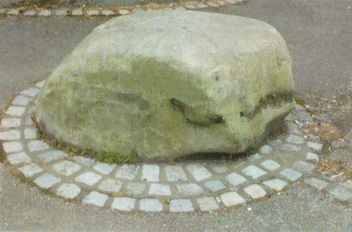 Stone now sited outside Westhoughton Methodist Church, from which John Wesley is said to have preached in April 1784.